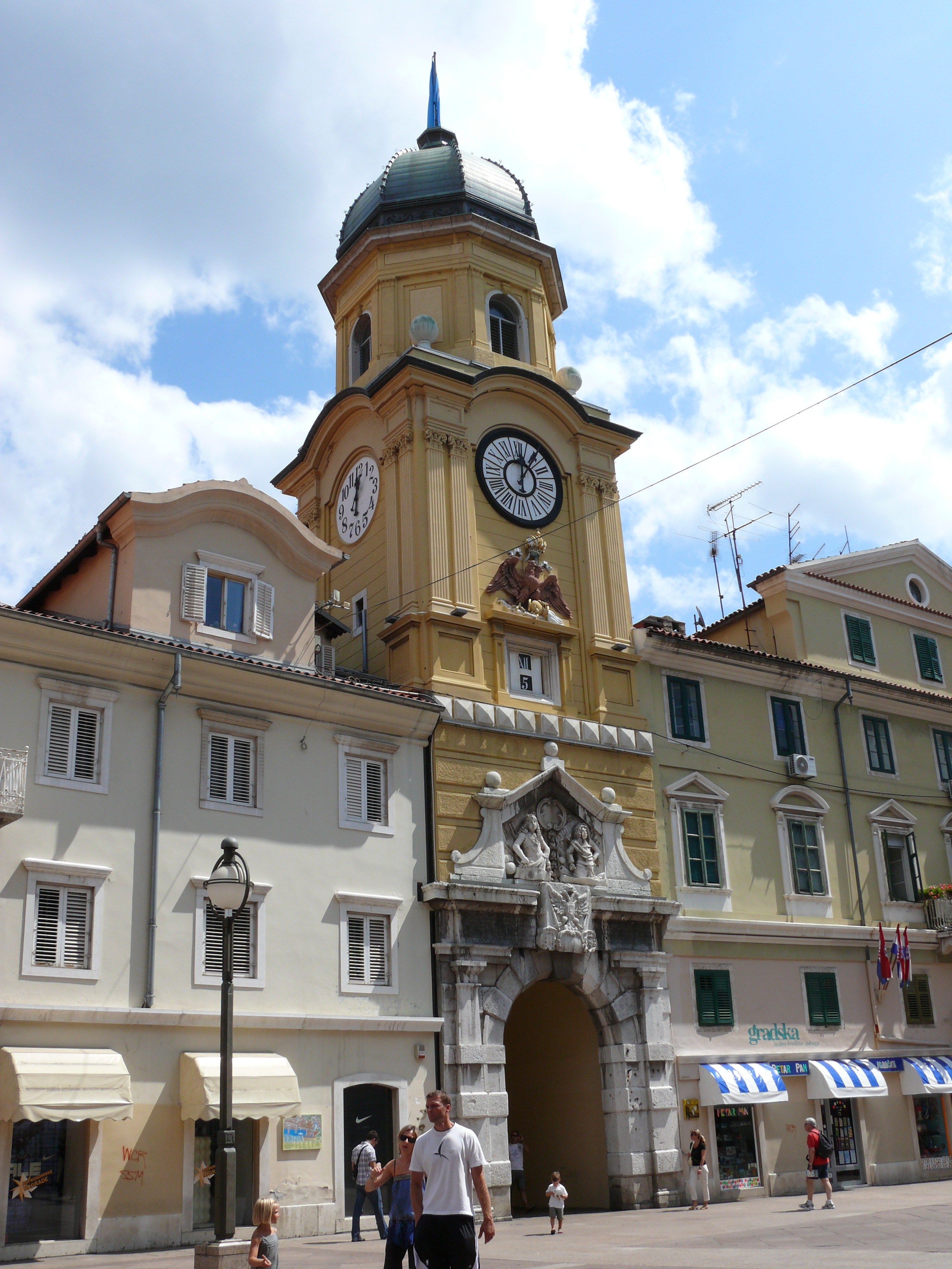 Tower of cíity - Rijeka city -Croatia